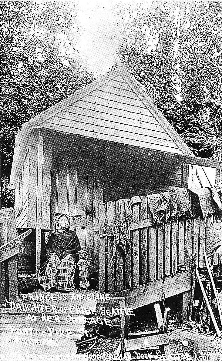 Postcard of Princess Angeline (daughter of Chief Seattle) and her home near the foot of Pike Street, Seattle, Washington, roughly the location of the Pike Hill Climb behind today's Pike Place Market. Postcard was sold by Ye Olde Curiosity Shop (Seattle, Washington).